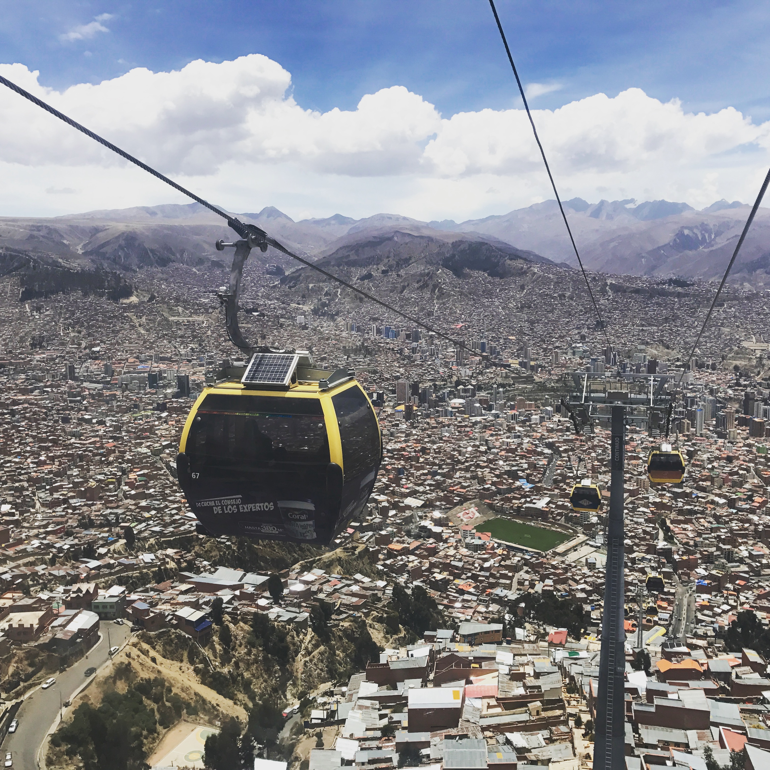 "Mi Teleférico" (La Paz–El Alto Cable Car). Yellow Line cable cars approaching Mirador/Qhana Pata station.